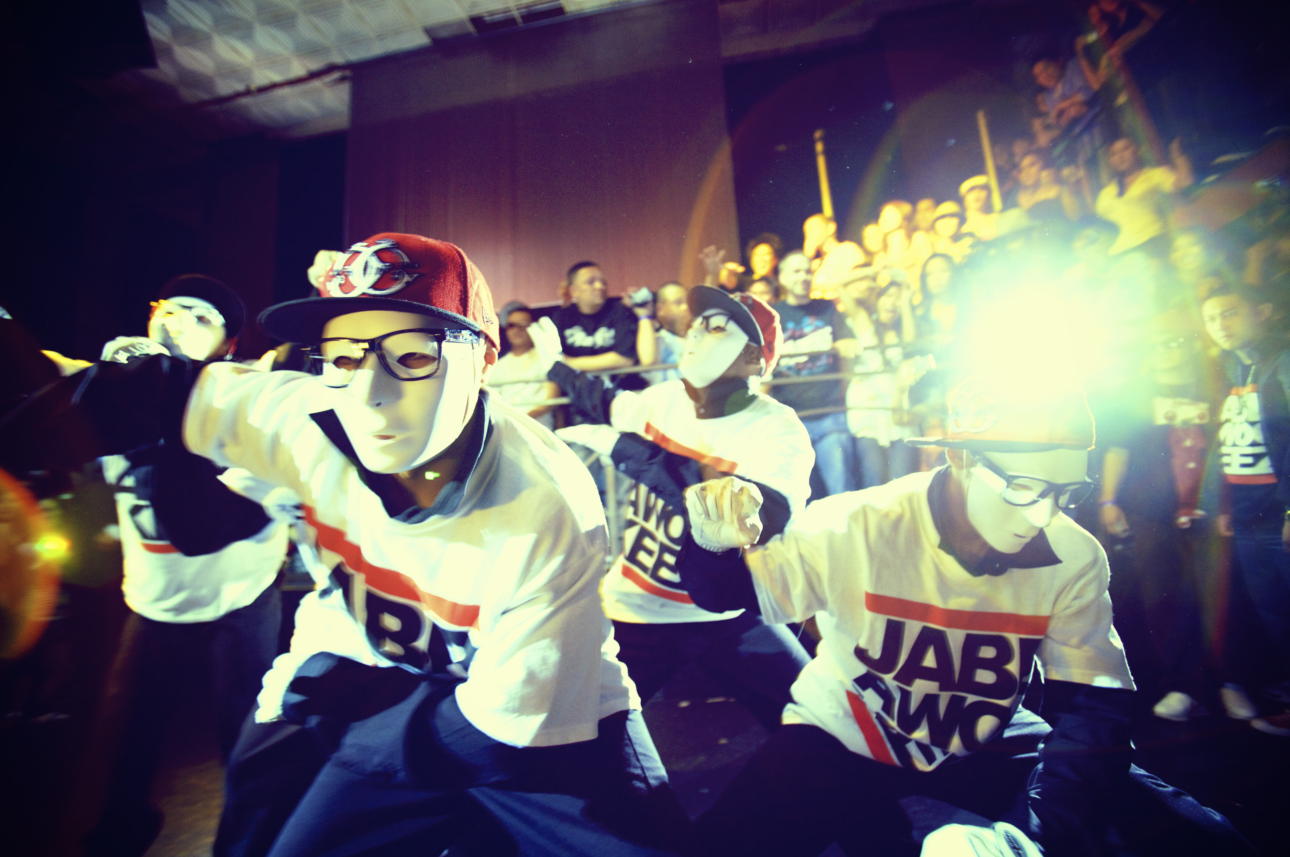 A performance at the Vivid Nightclub in San Jose, CA.